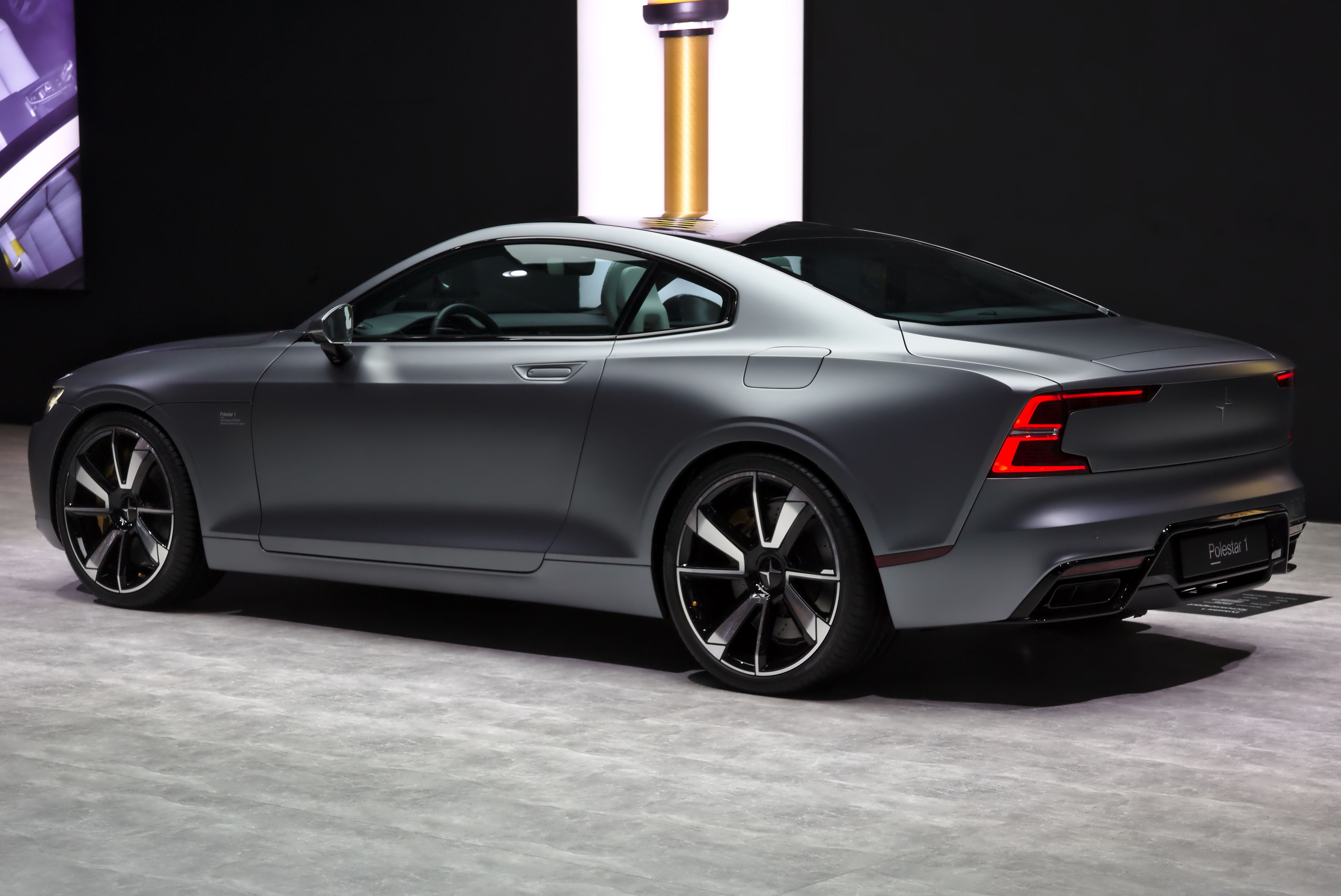 Polestar 1 at Geneva Motor Show 2018